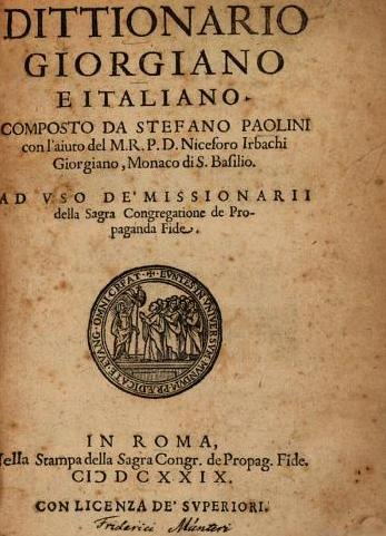 Dittionario Giorgiano e Italiano